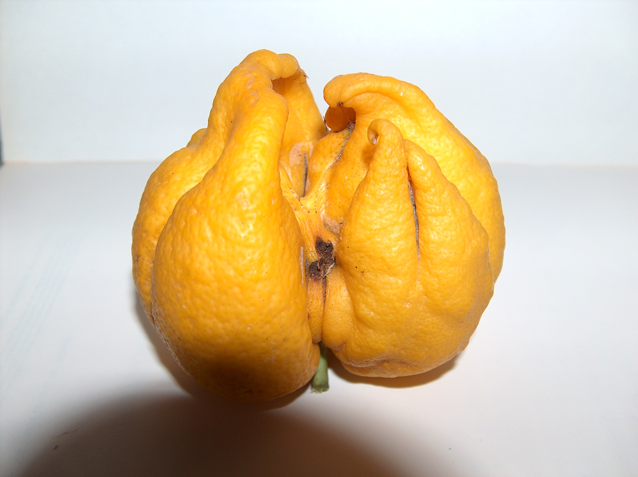 Damage of Aceria sheldoni (Acari: Eriophyidae) on lemon